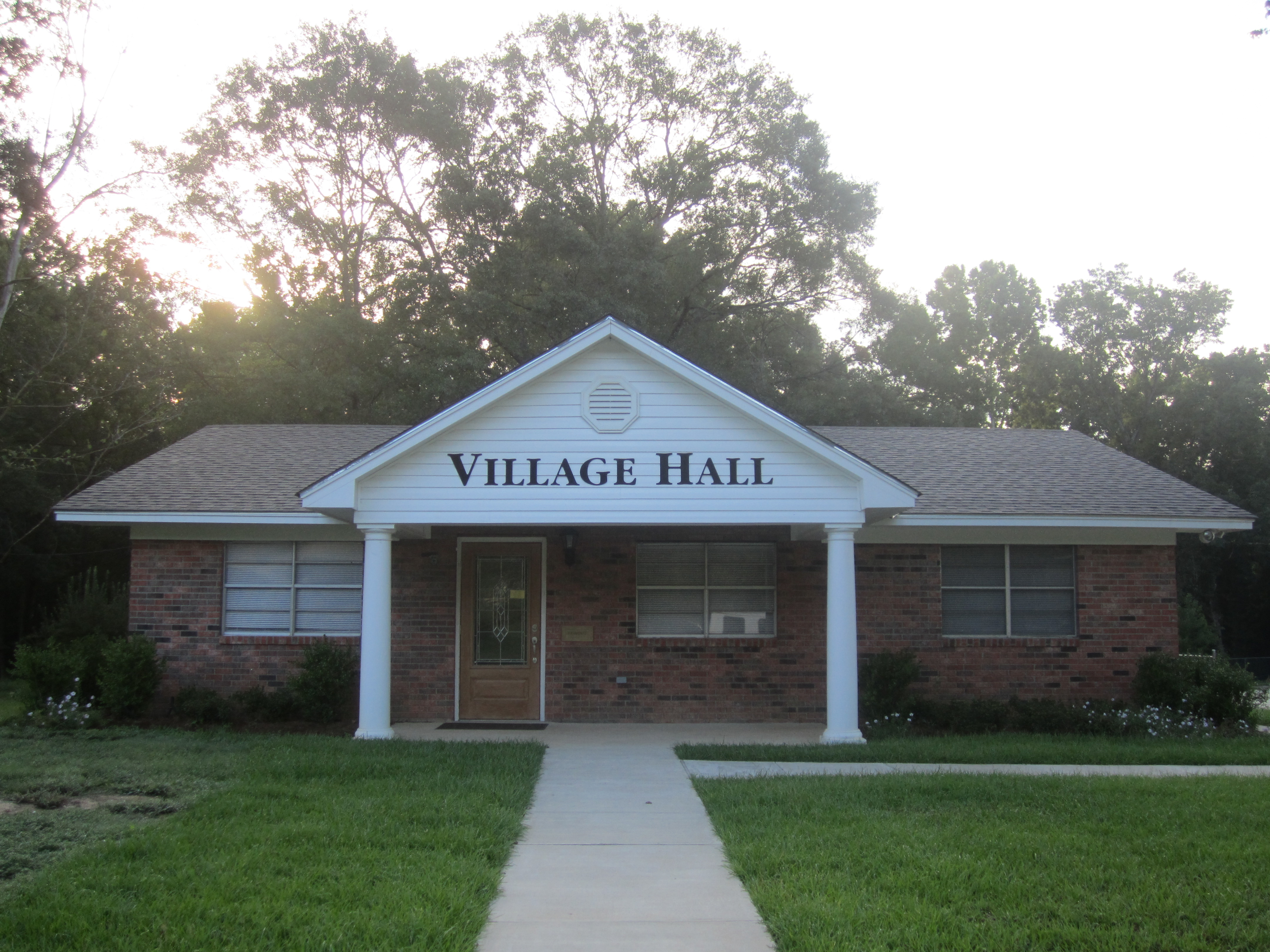 I took photo with Canon camera in Choudrant, LA.